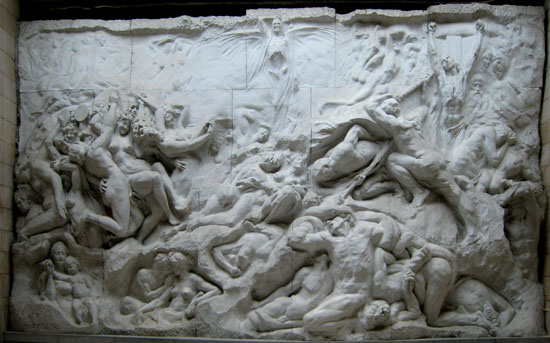 Temple of Human Passions (1898). Detail of the relief made by Jef Lambeaux showcased in the Temple of Human Passions. West-Vlams: De Menschelikke Driftn, reliëf in wit marmer in 't Jubelpark in Brussel.